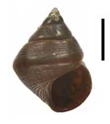 Photo of an apertural view of a holotype shell of Tylomelania sinabartfeldi. Holotype MZB Gst. 12.112, scale bar is 5 mm.